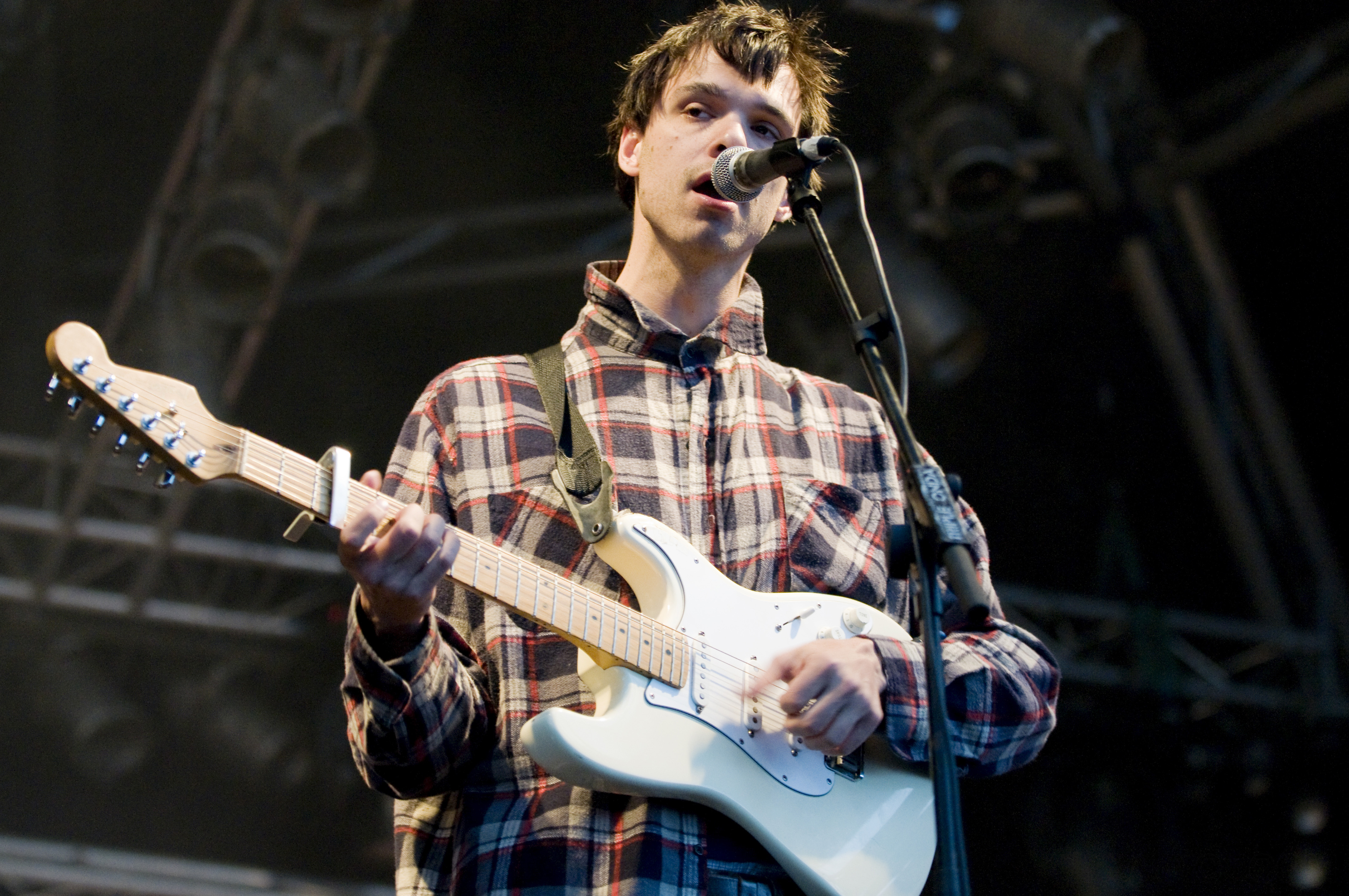 Dave Longstreth performing with Dirty Projectors